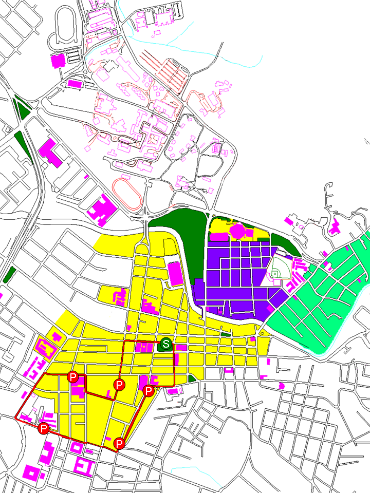 Mayagüez Integrated Transportation (TIM) - Route 1 with Stops